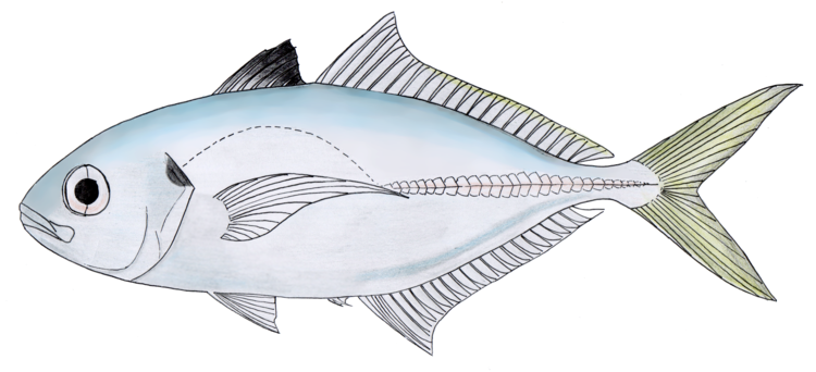 Hand drawn and coloured diagram of blackfin scad, Alepes melanoptera. Based on fishbase photos